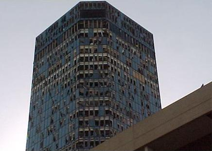 Damage to the Bank One Building (now known as The Tower) in downtown Fort Worth from the 2000 Fort Worth tornado. Image edited from the original to remove wording.